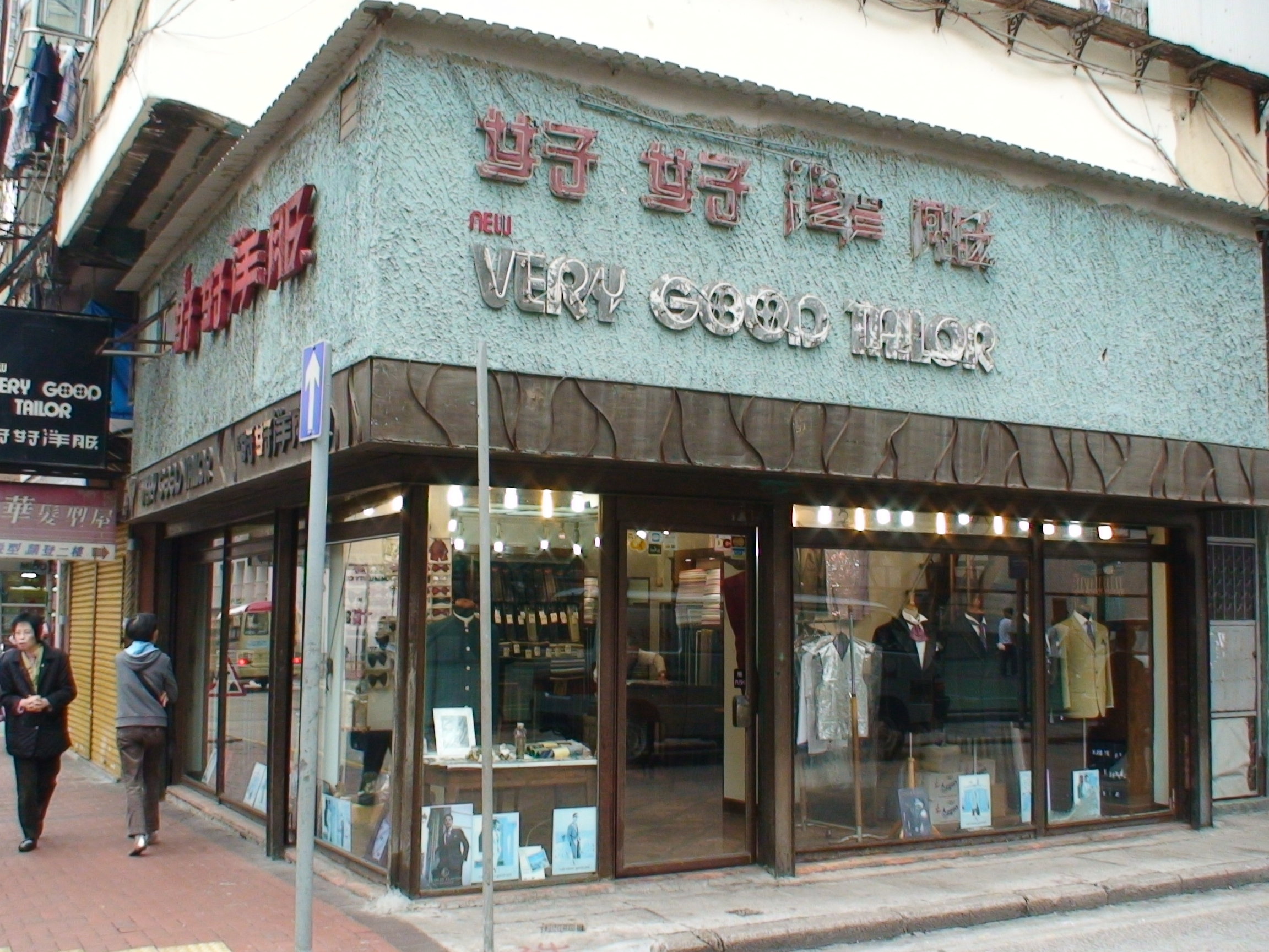 A local version of Tailer shop (zh-yue:洋服店) in Yau Ma Tei, Hong Kong